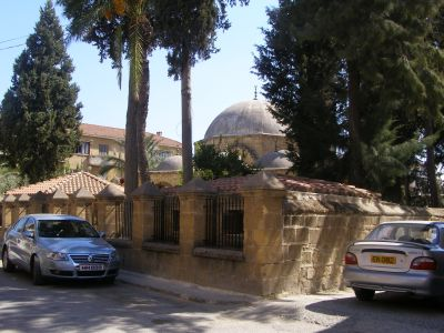 A mosque in Nicosia, Cyprus - northern (Turkish) part